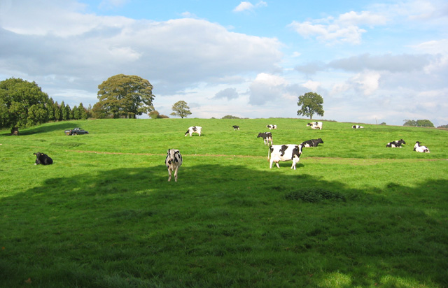 Cattle pasture near The Hollies North of the Adderley to Norton in Hales lane, the land gently rises towards an elevation of 140 m in SJ6839. The land use on this side of the lane is predominantly cattle pasture. The vehicle in left of frame was rounding up the cows for milking with the aid of a sheep dog